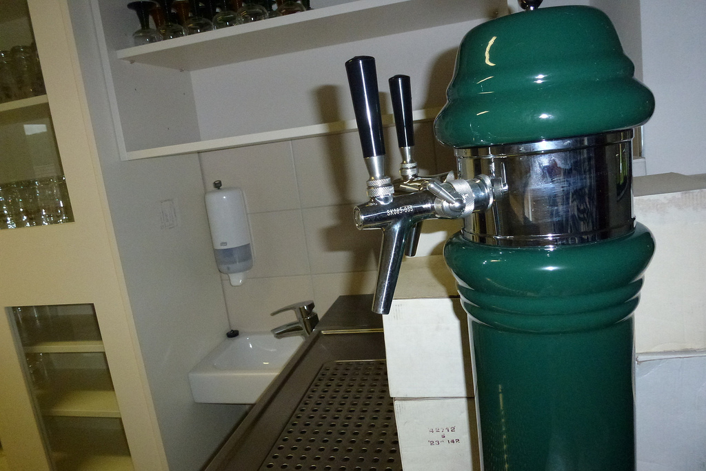 A tapping system